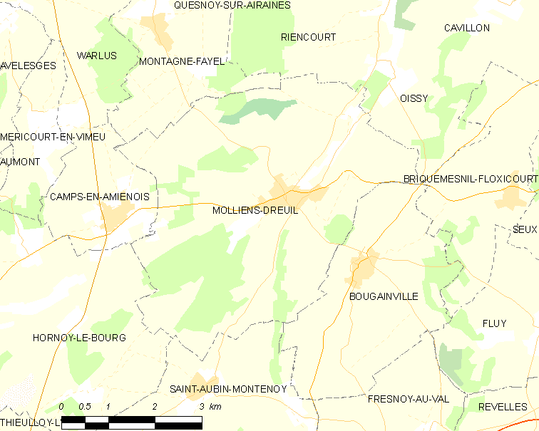 Map of French municipality Molliens-Dreuil